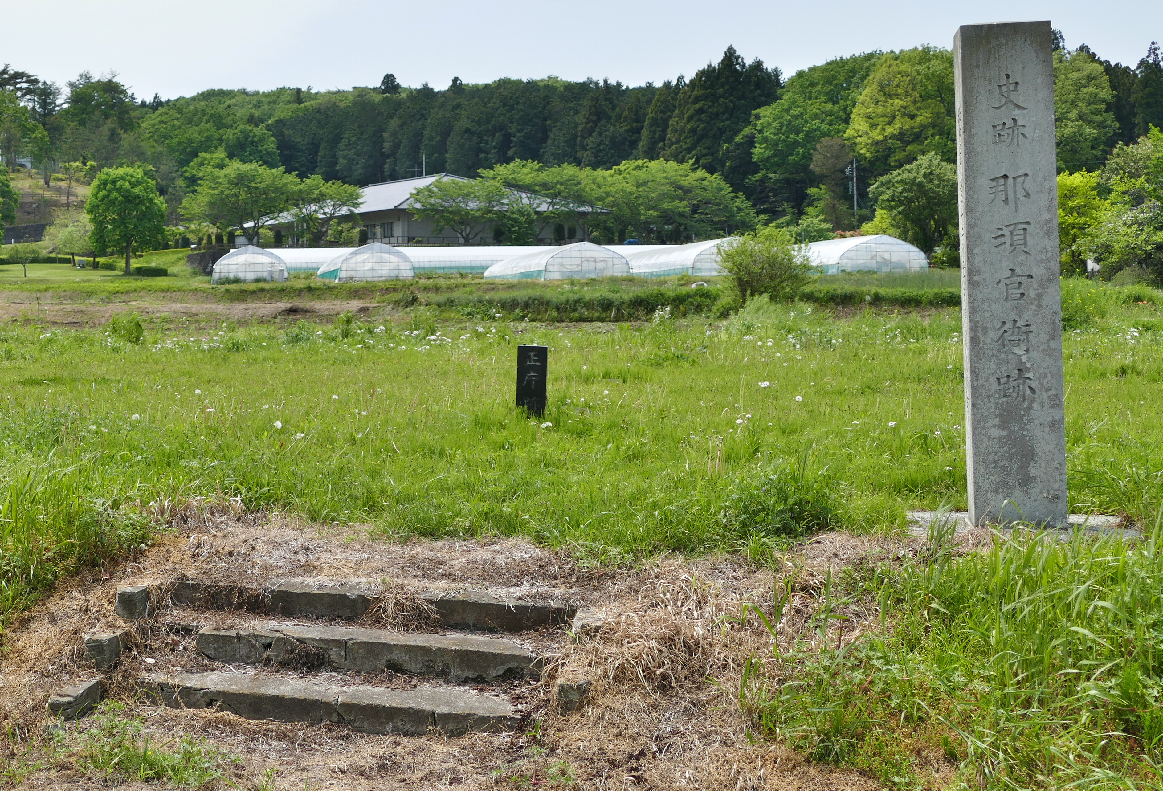 The Nasu Kanga (public office) ruins,Tochigi prefecture,Japan